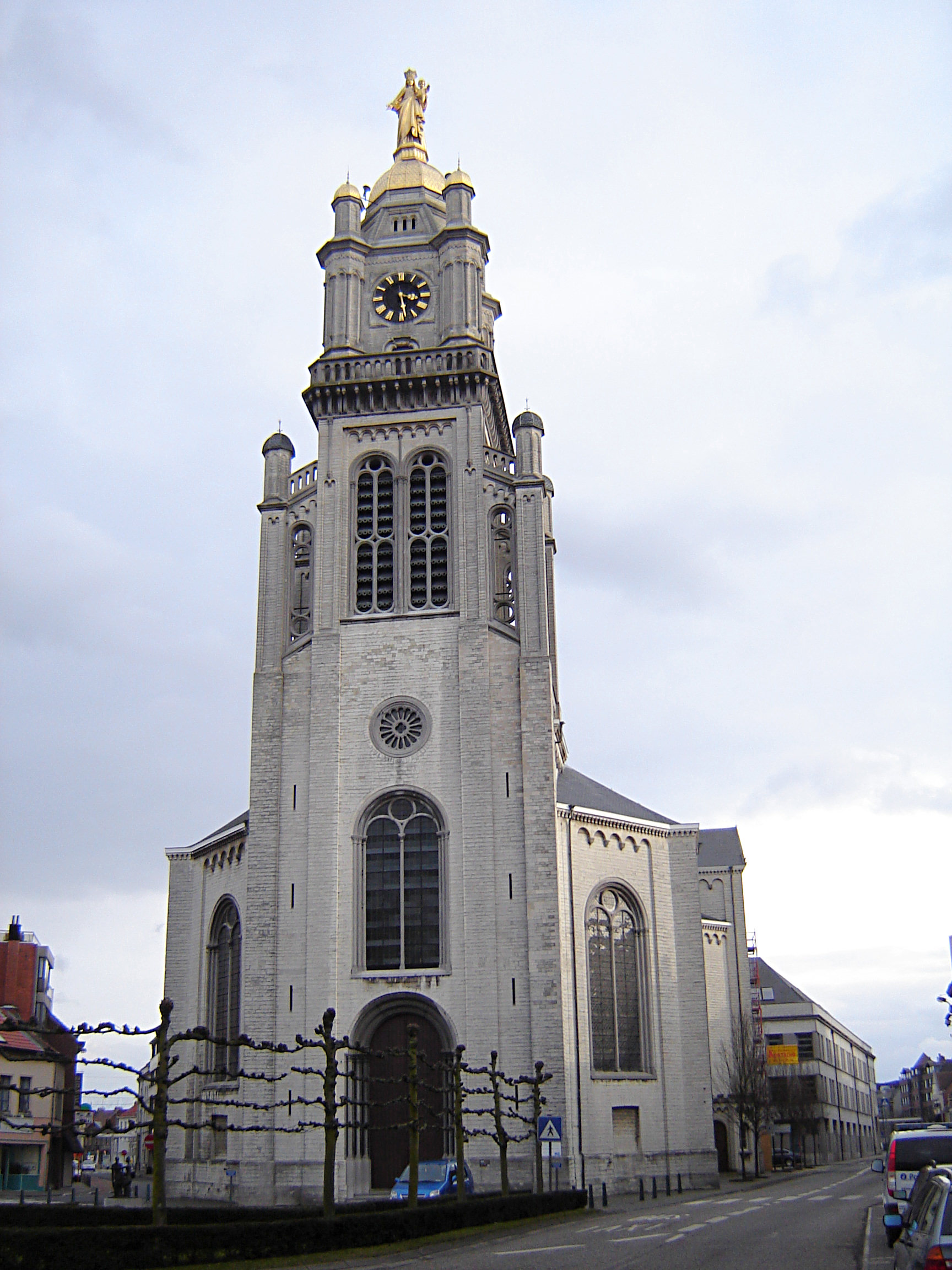 Church of Our Lady Help of Christians in Sint-Niklaas. Sint-Niklaas, East Flanders, Belgium